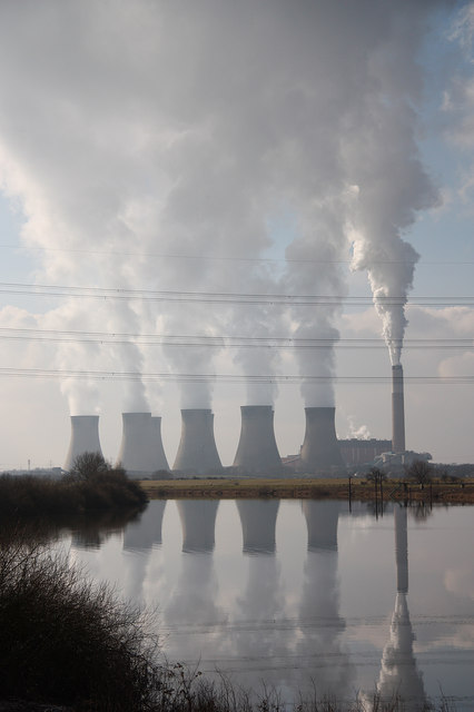 View to Cottam Cottam power station reflected in a very calm River Trent, seen from Trent Port